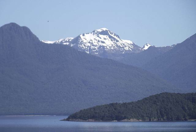 the Mountain Peak Named after Cosmologist Beatrice M Hill-Tinsley